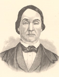 Jeremiah Brown, US Representative from Pennsylvania